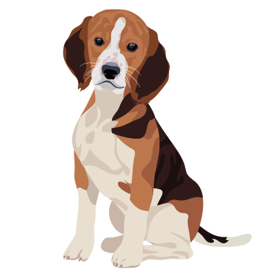 Dog